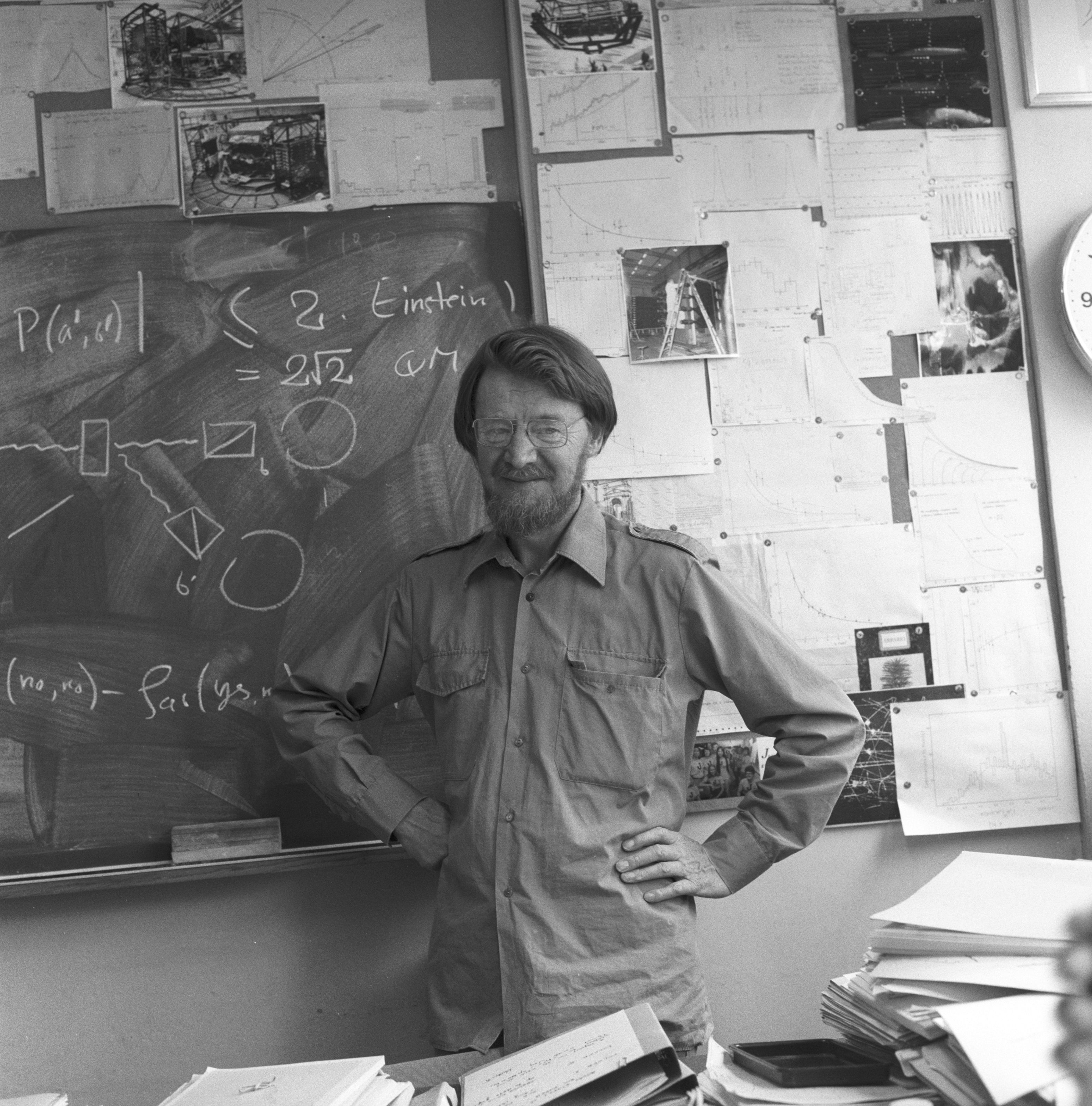 Portrait of theoretical physicist John Bell at CERN, June 1982